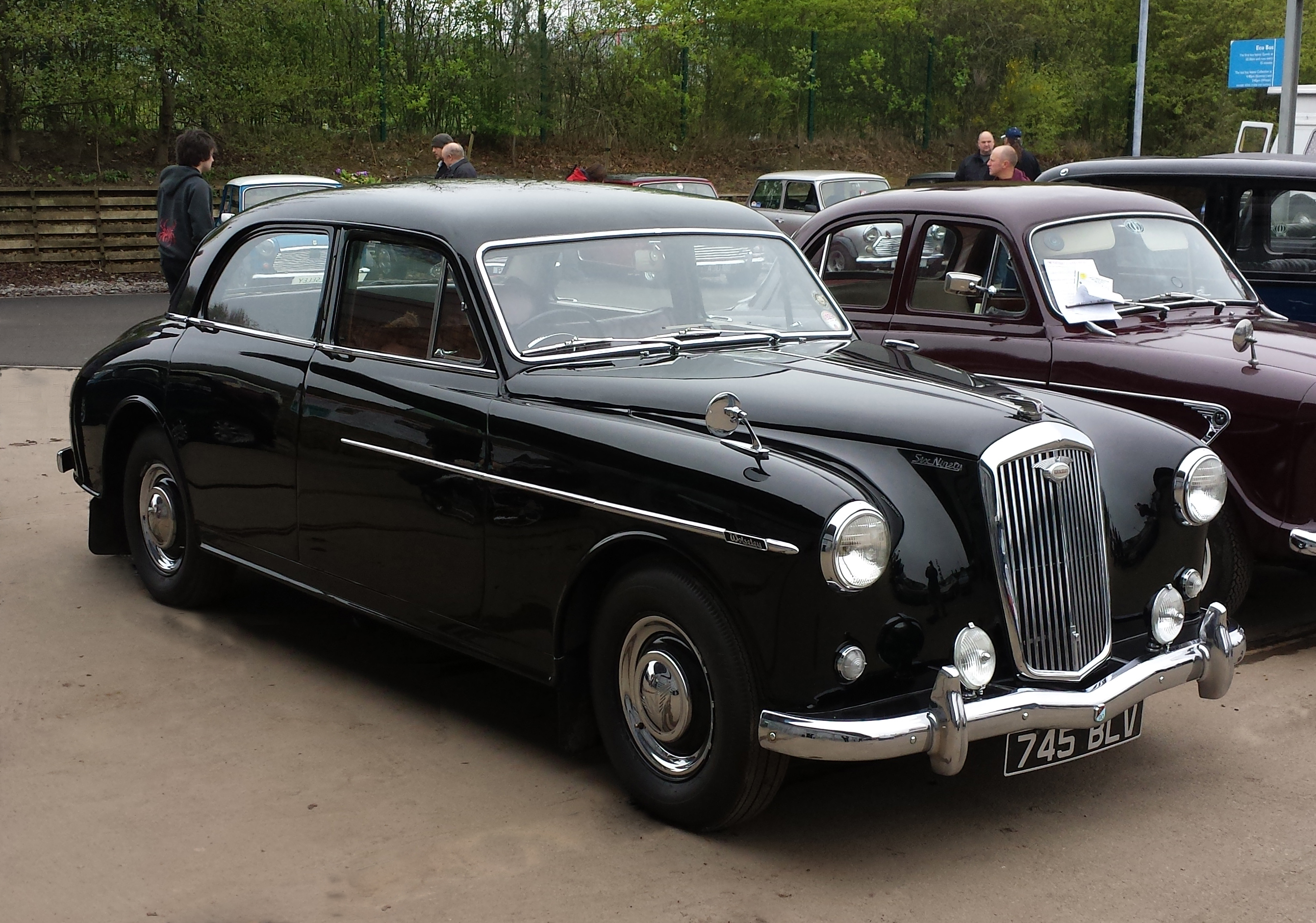 1959 Wolseley Six-Ninety saloon DVLA frst registered 17 March 1959, 2639cc Northern Bygones Rally, Shildon 27th April 2014image cropped and foreground tidied